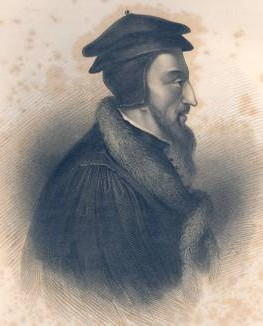 John Calvin